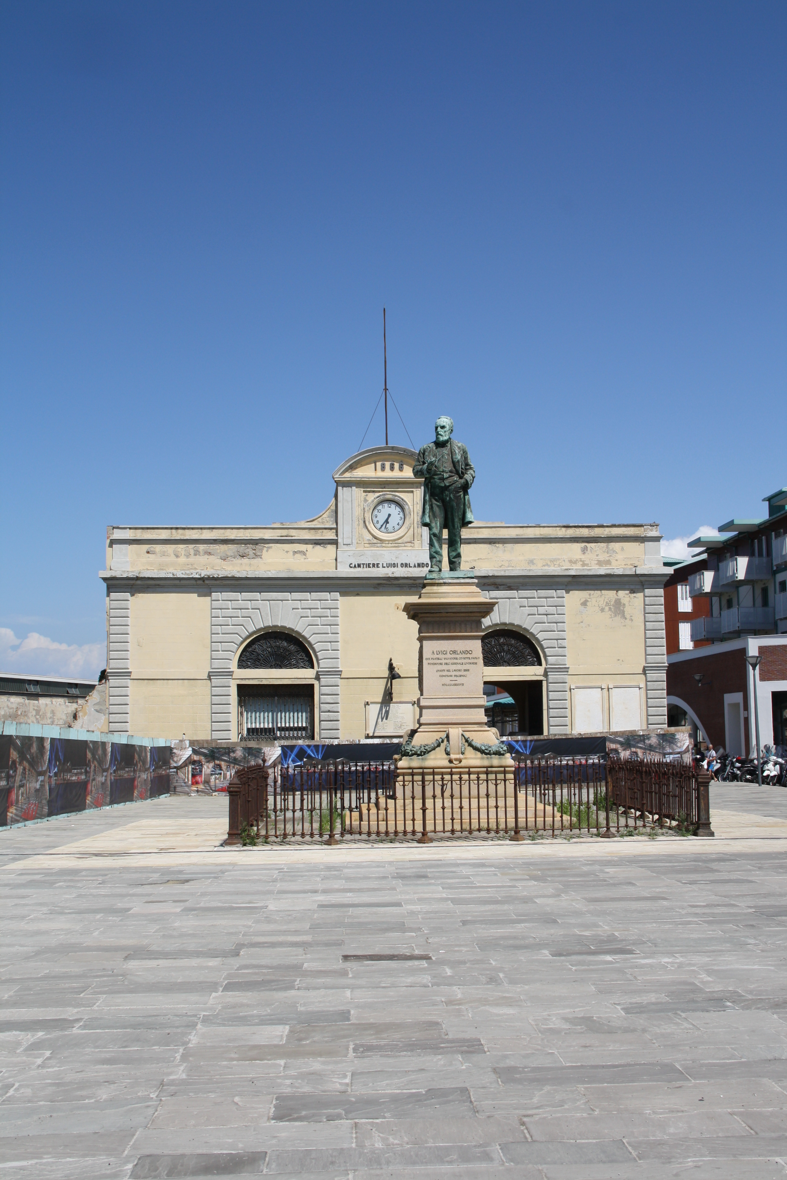 Italy, Livorno, Piazza Luigi Orlando. The old front of Cantiere navale fratelli Orlando and the monument to its founder Luigi Orlando.